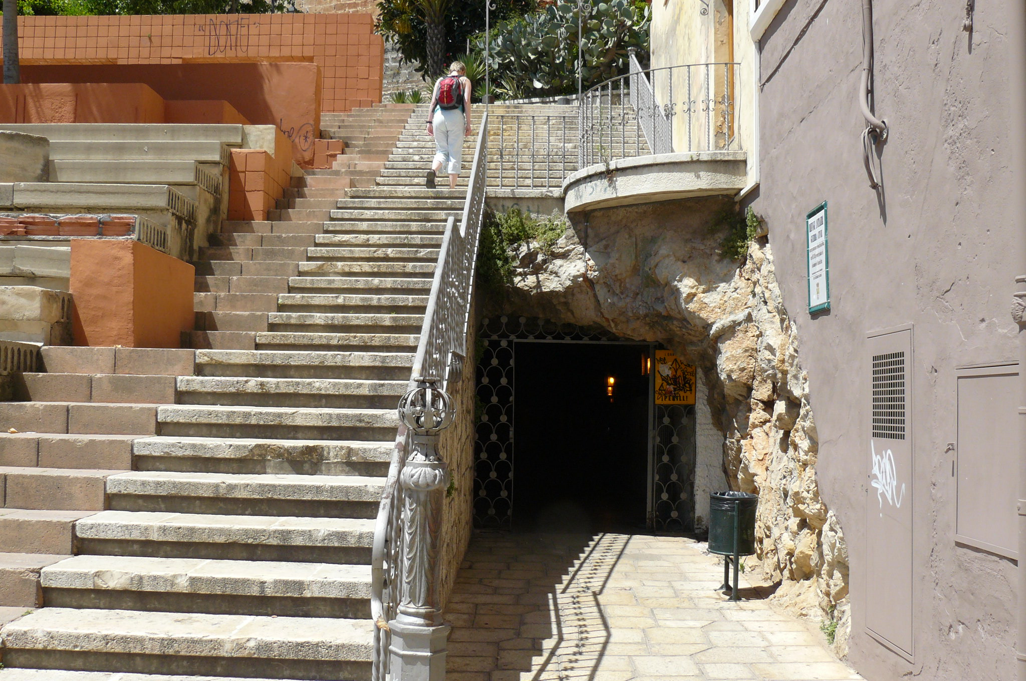 Bunker in Denia, Spain. 1937.